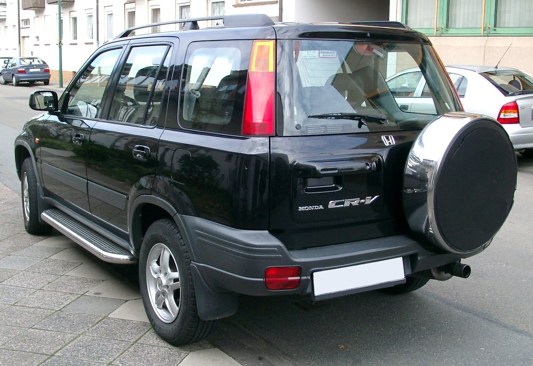 Honda CR-V, 1. Generation